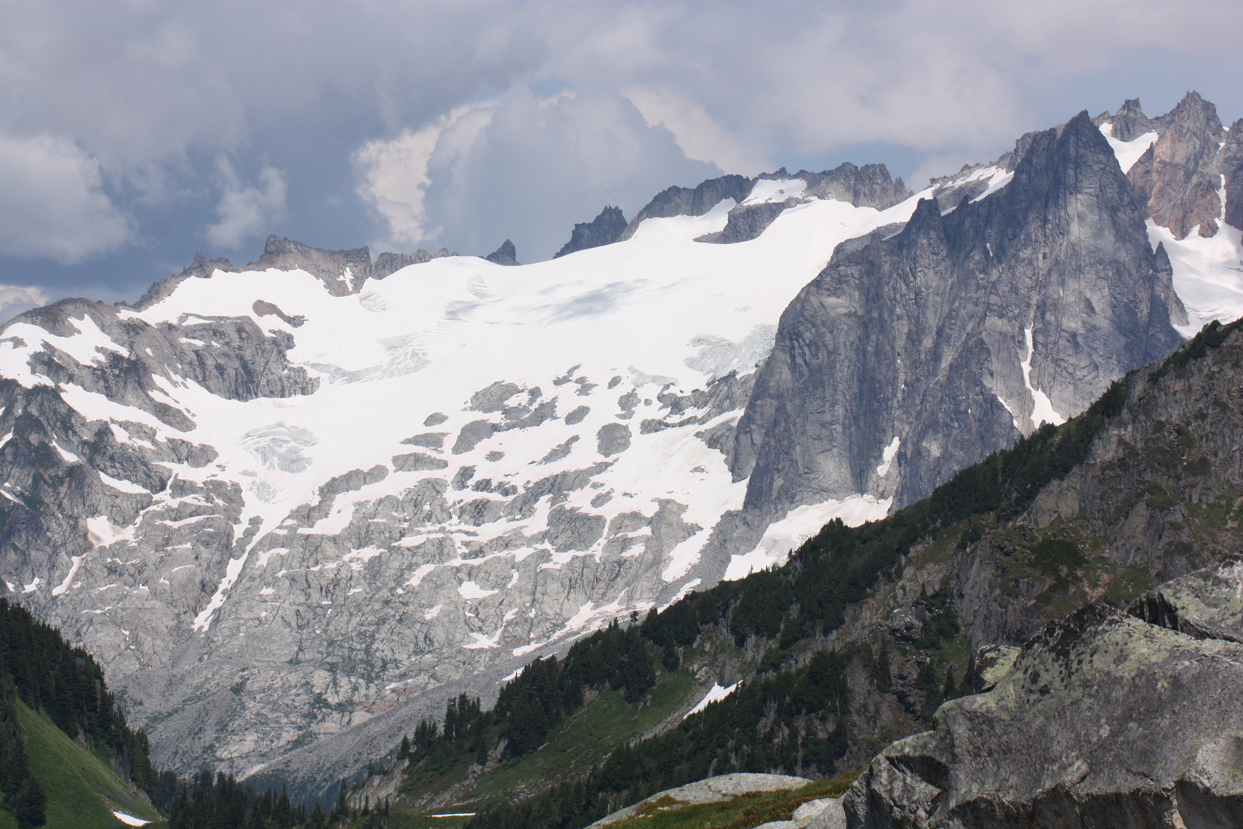 Marble Creek Glacier (center); Early Morning Spire (8200', 2499 m, right with shadowed summit); Marble Needle (8401', 2561 m, far right skyline) Viewpoint location: Hidden Lake Trail, Mount Baker-Snoqualmie National Forest Viewpoint elevation: 1555 meter (5101 ft) View direction: 36° Location source: Garmin GPSmap 60CSx Location Datum: WGS84